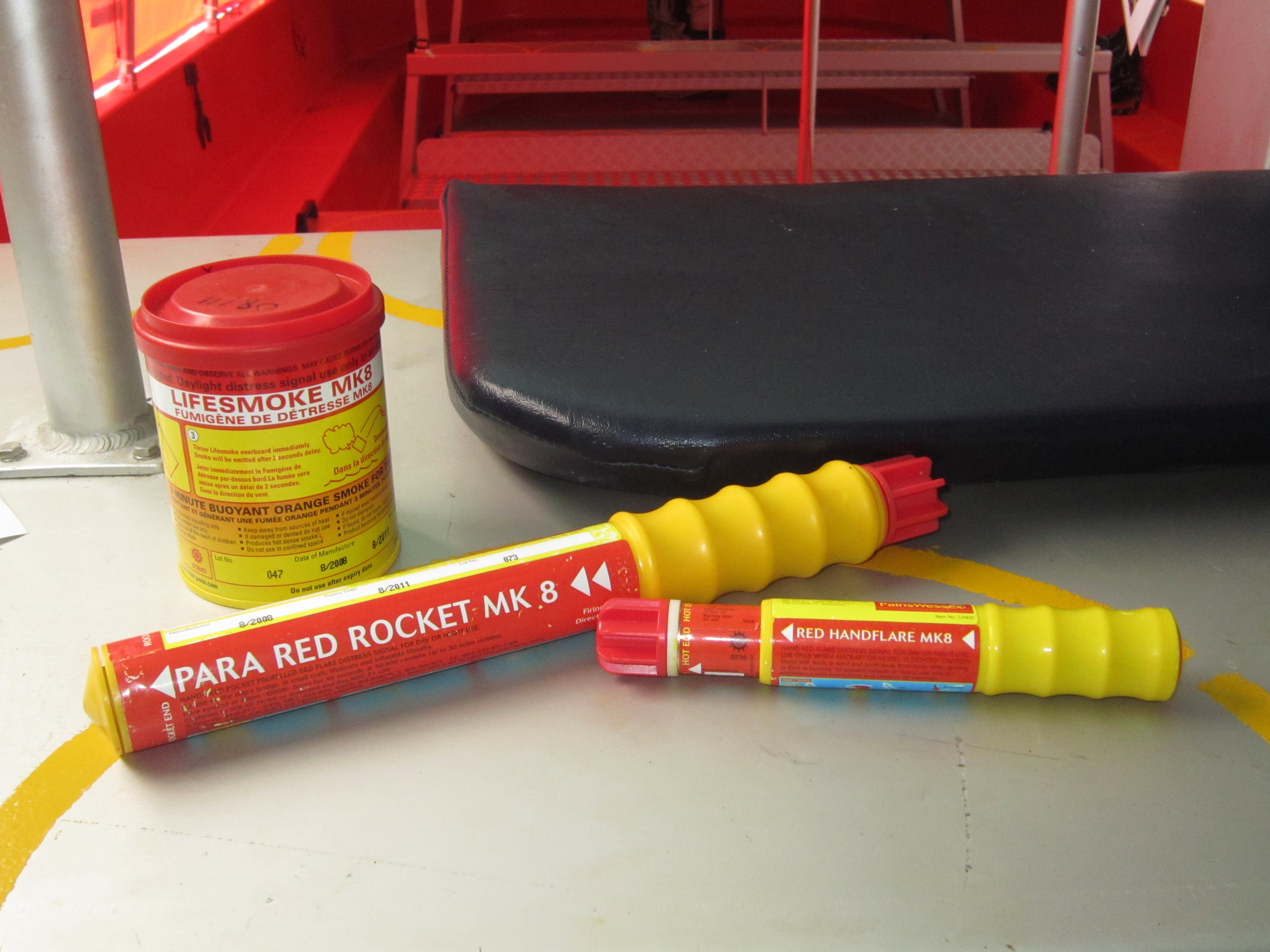 Pyrotechnics required by the SOLAS convention, including an orange smoke float, rocket parachute flare and hand flare.